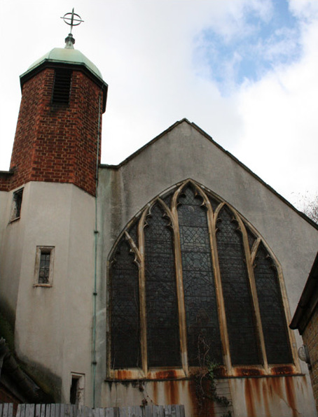 Rear of Blackwing Studios taken in 2010